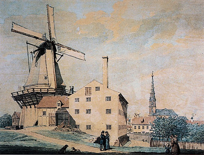 Lille Mølle in Christianshavn, Copenhagen, Denmark